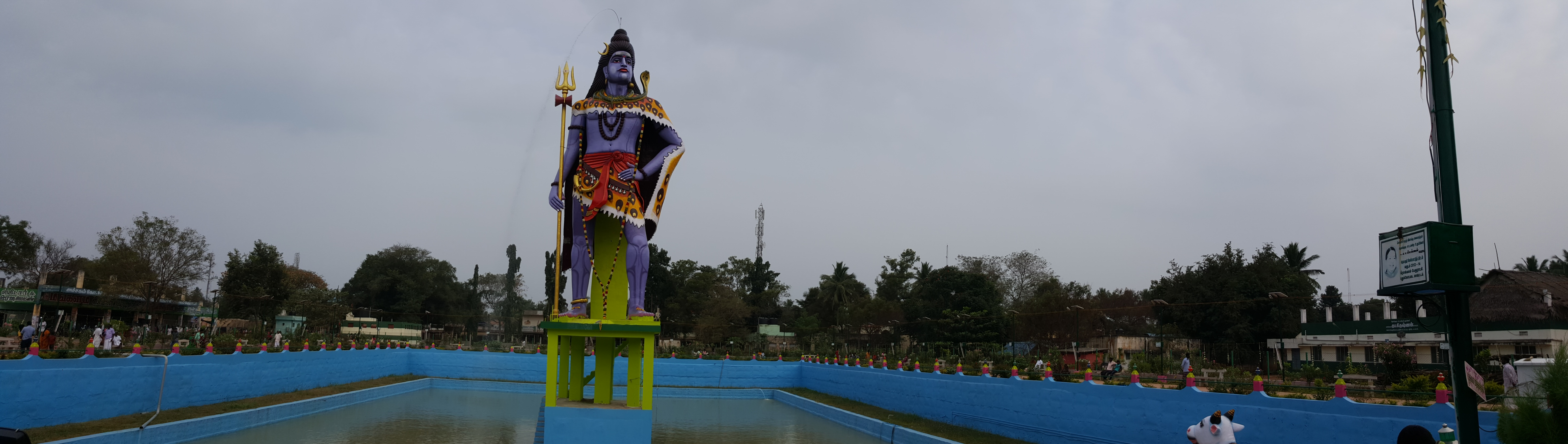 keeramangalam siva statue